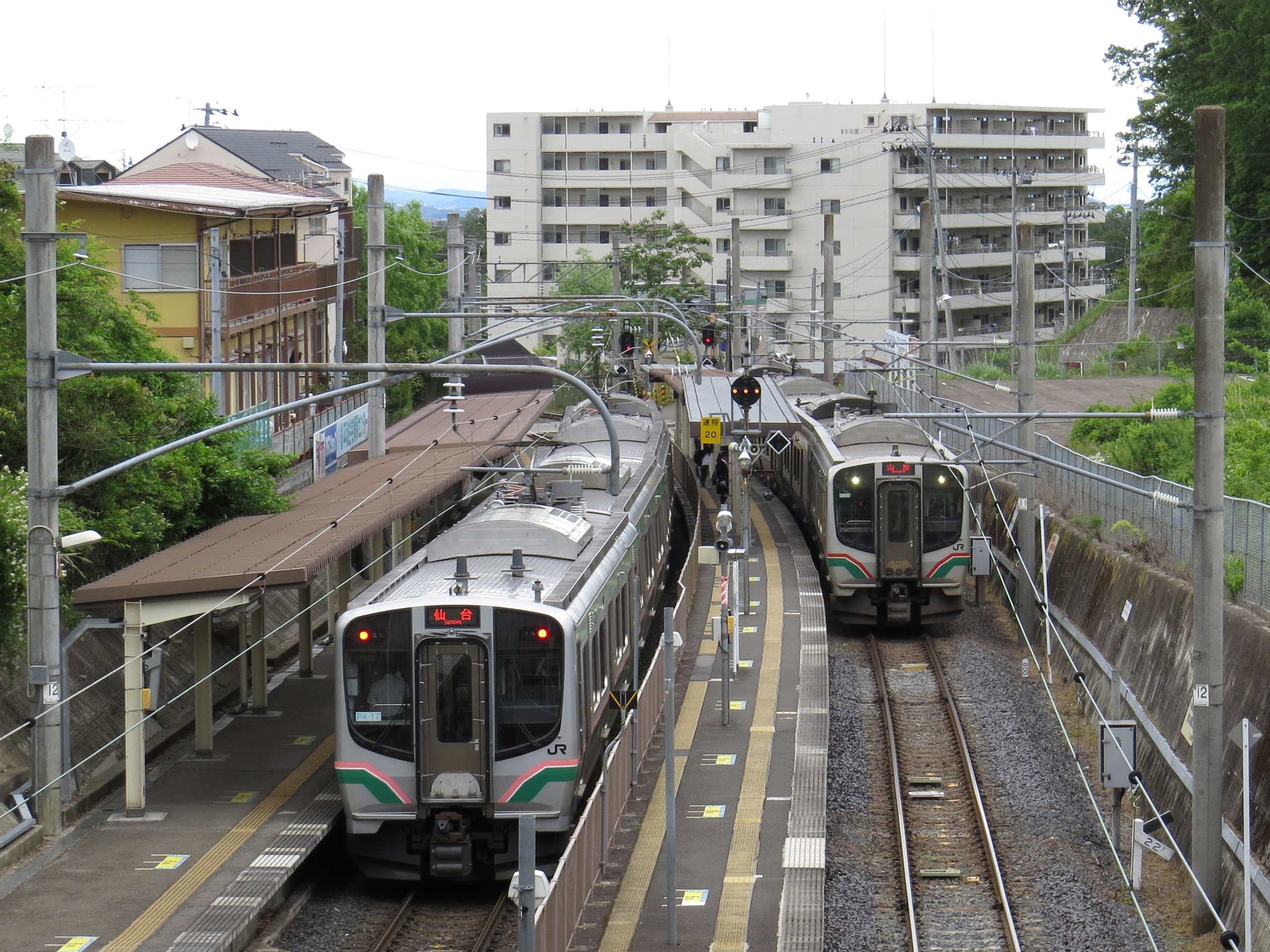 Two JR East E721 series EMUs passing at Kunimi Station on the Senzan Line